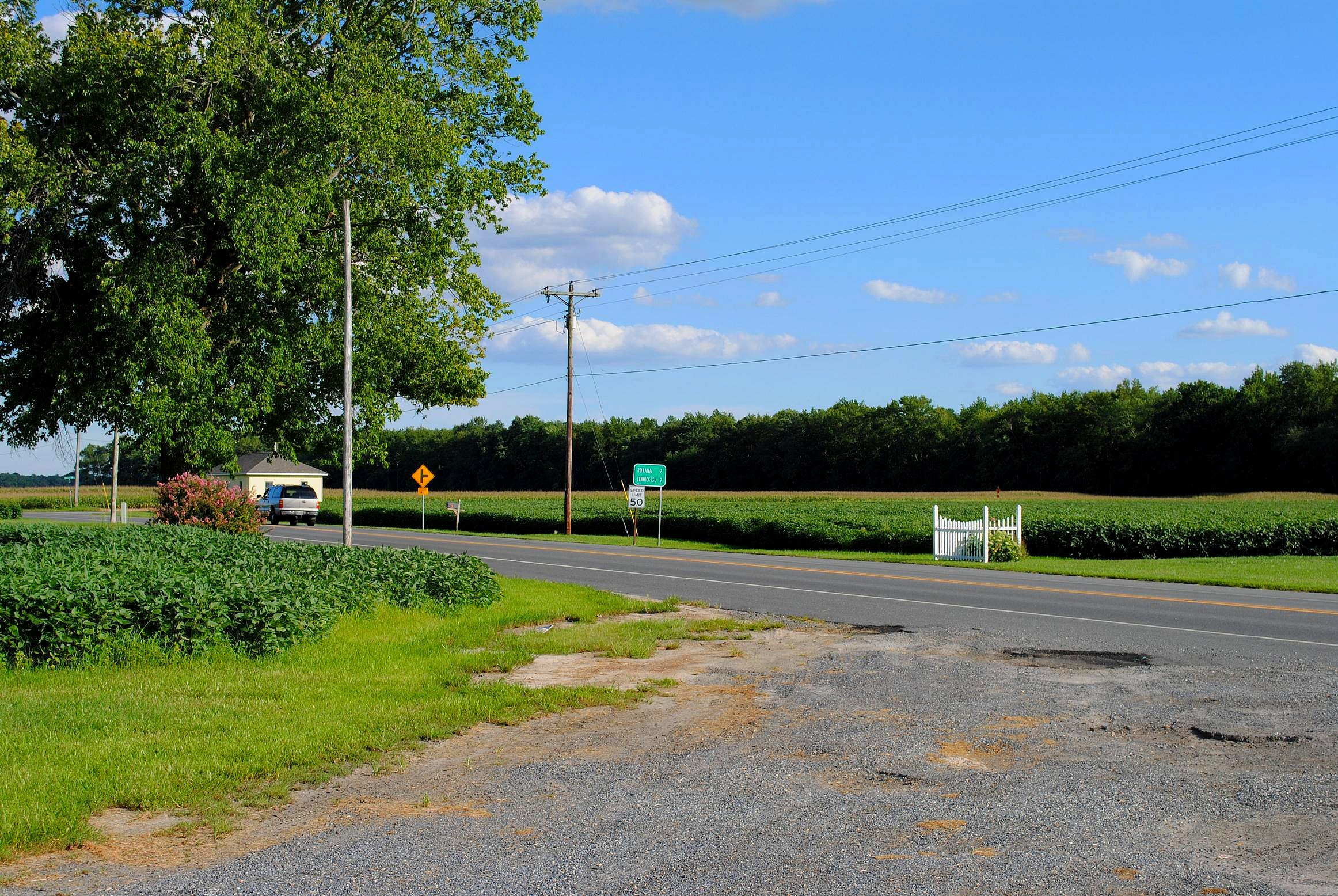 Armory Road - State Route 20 heading south towards Roxana.